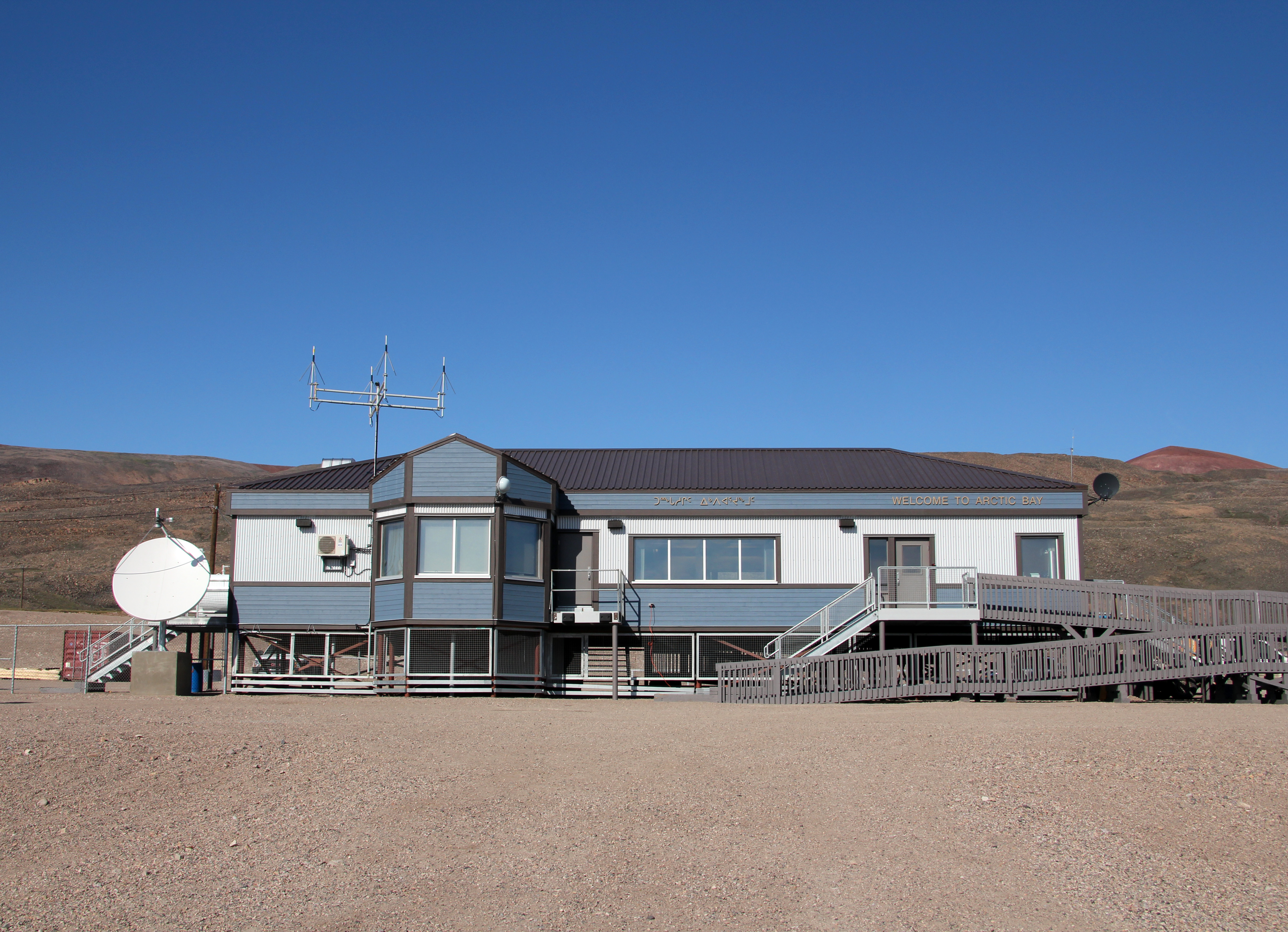 This terminal was completed in 2010 and is now open for business.